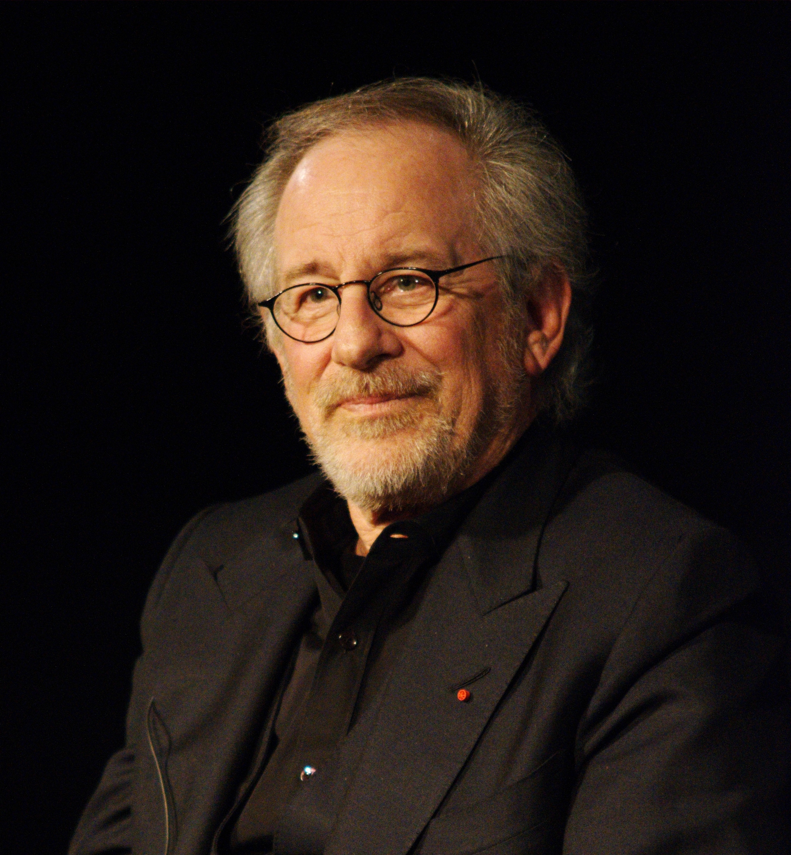 Steven Spielberg during his masterclass at "La Cinémathèque Française" on January 9th, 2012 in Paris.